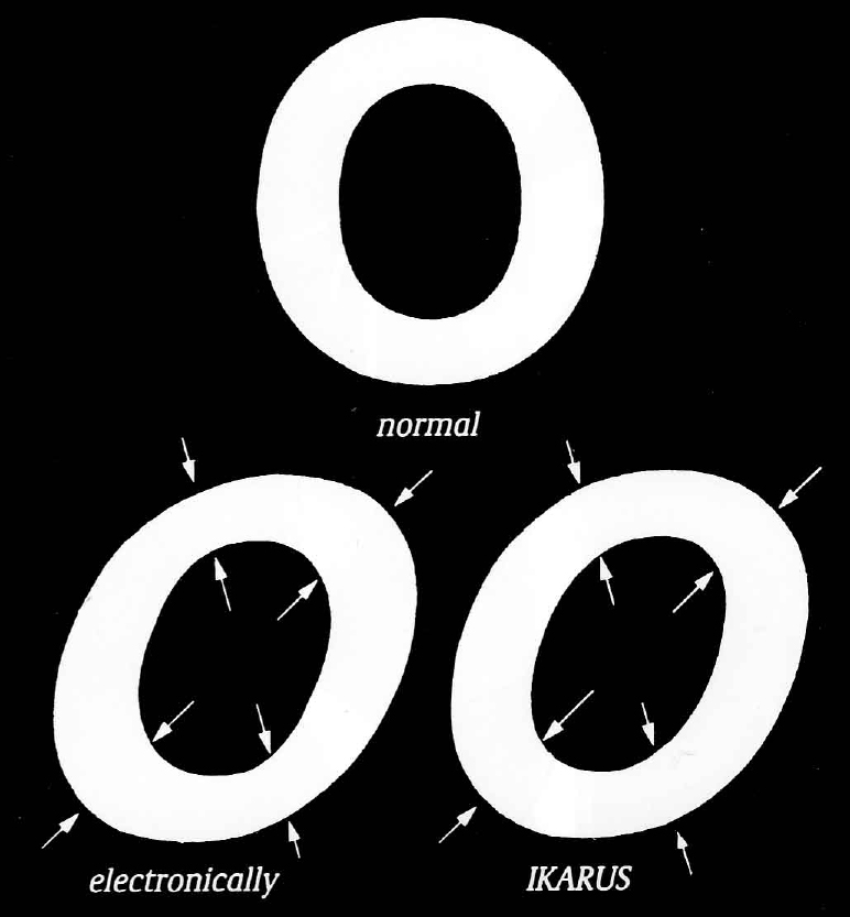 Automatic correction after italicization